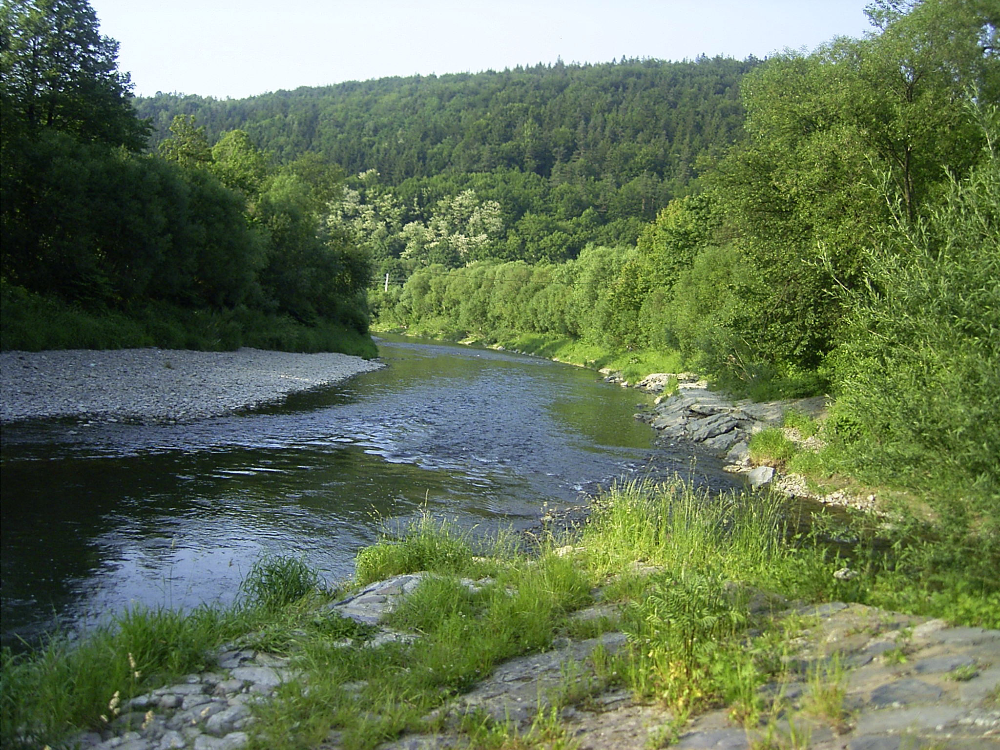 The Bečva River, Czech Republic, near its confluence with the Bystřička